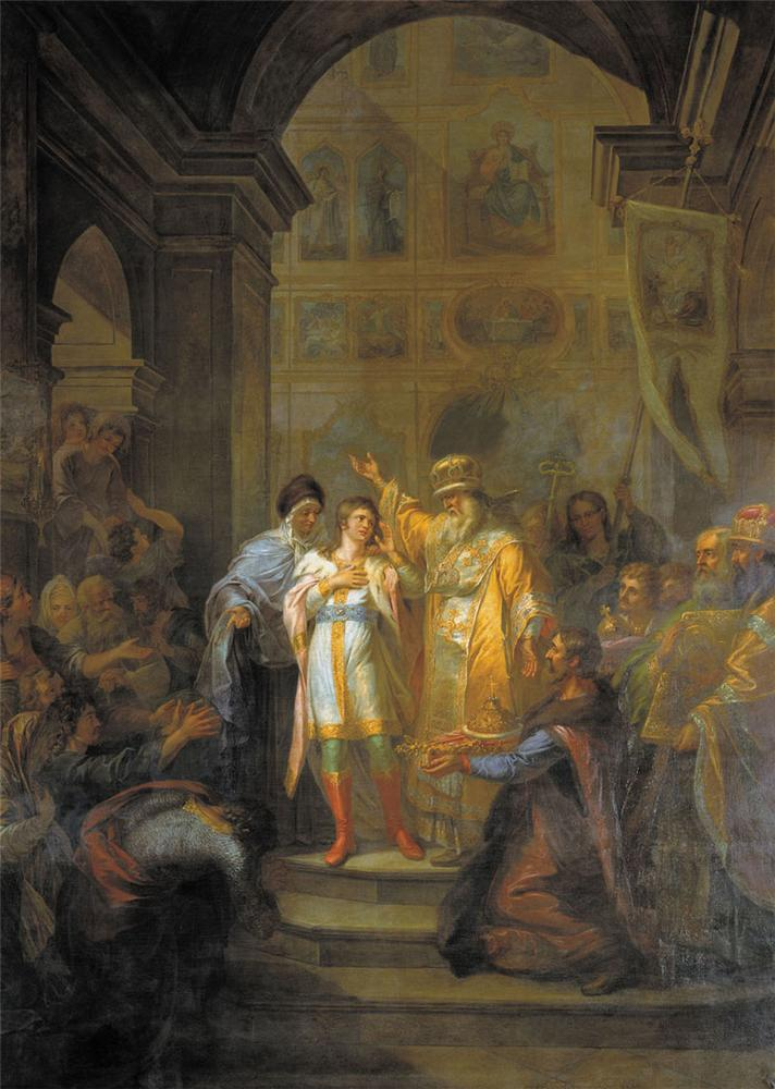 Mikhail Feodorovich is summoned to the Russian throne on March 14, 1613